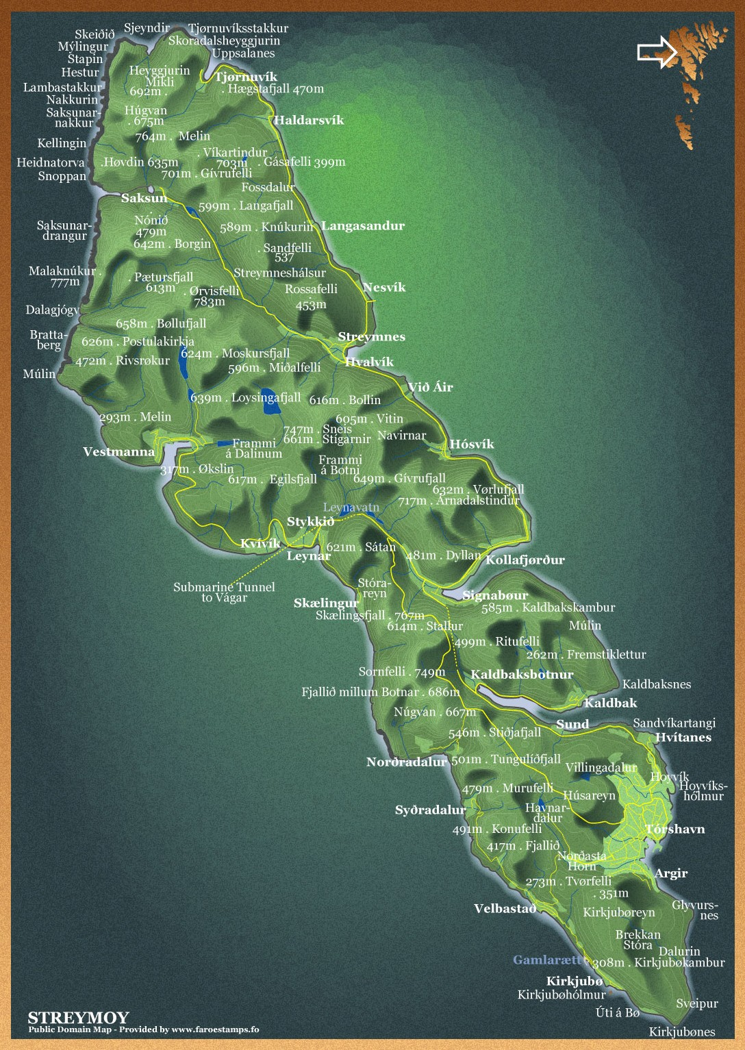 Streymoy, Faroe Islands